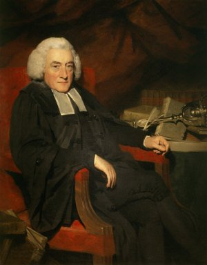 William Robertson (1721-1793)